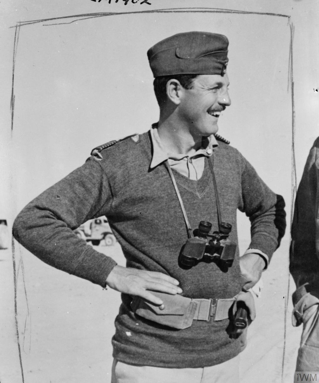 Royal Air Force Operations in the Middle East and North Africa, 1939-1943. Group Captain K B B Cross (later Air Chief Marshal Sir Kenneth Cross), Officer Commanding, No. 258 Wing, Western Desert Air Force, probably at El Adem, Libya.